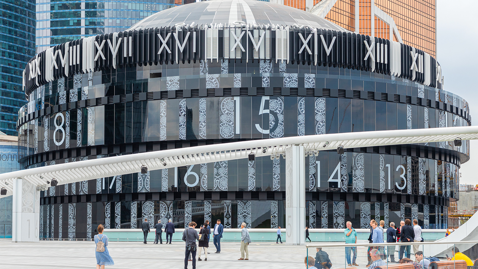 Cinema-Concert Hall in Moscow-City